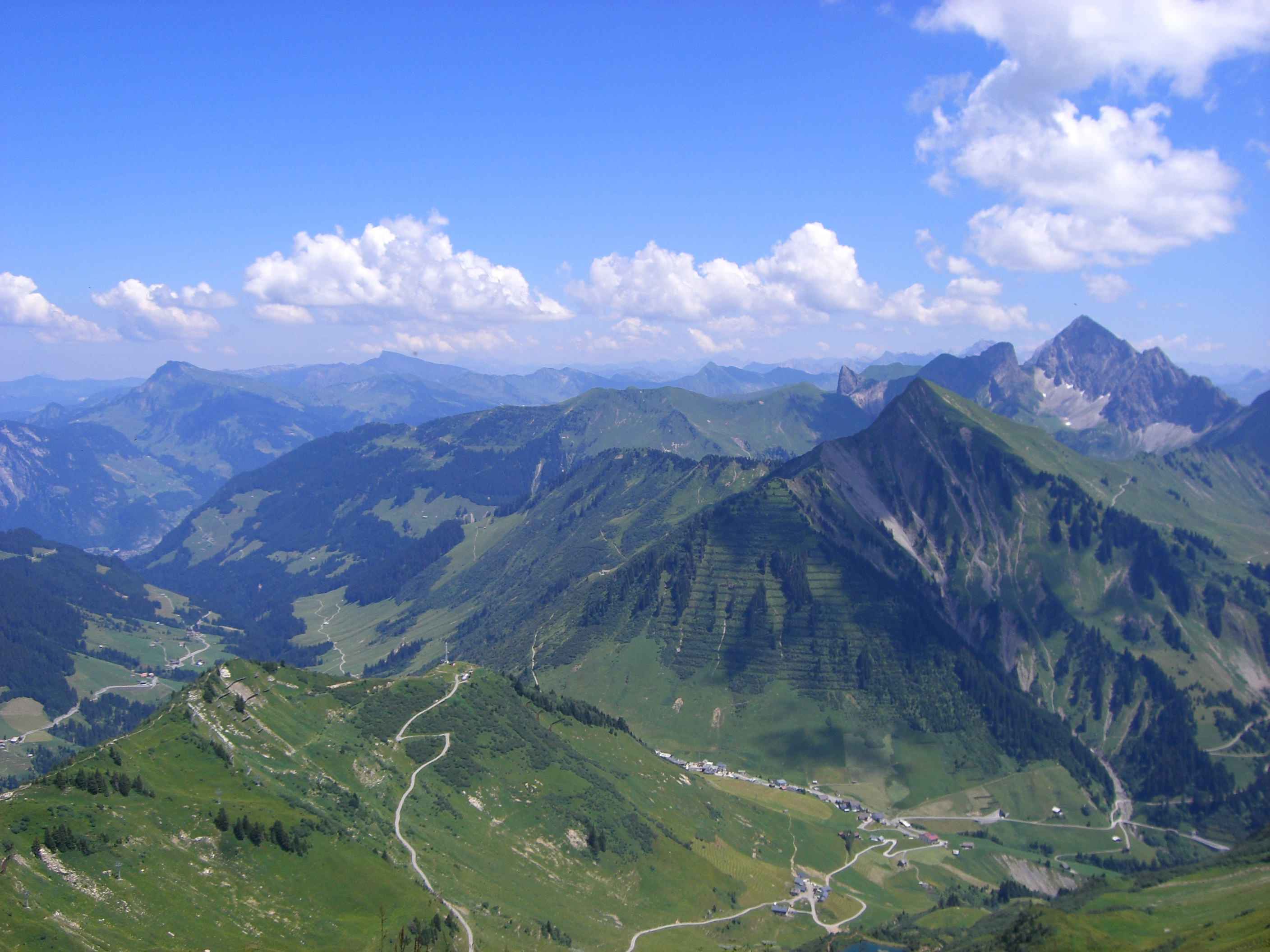 View from Glatthorn (2133 m) to Faschina Pass.